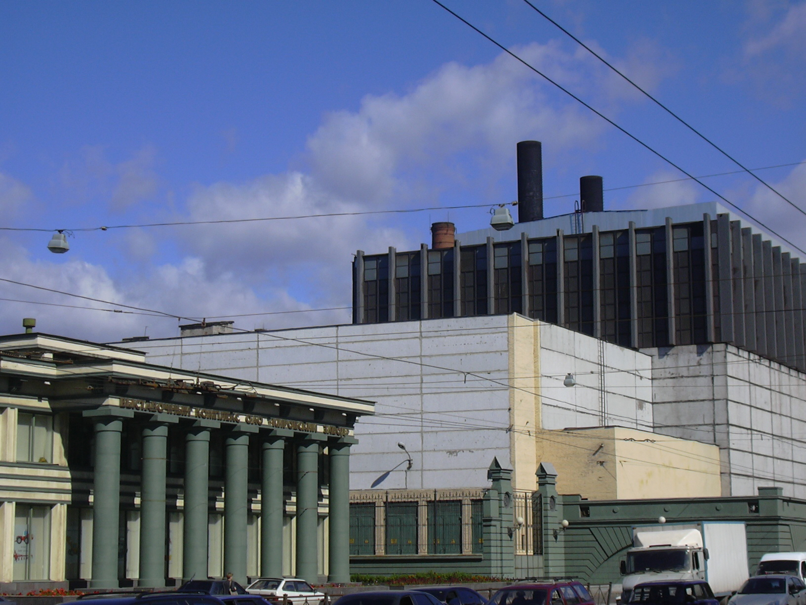 Kirovsky factory in St.Petersburg